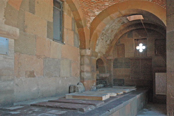 St. Gayane church, Echmiadzin, Armenia